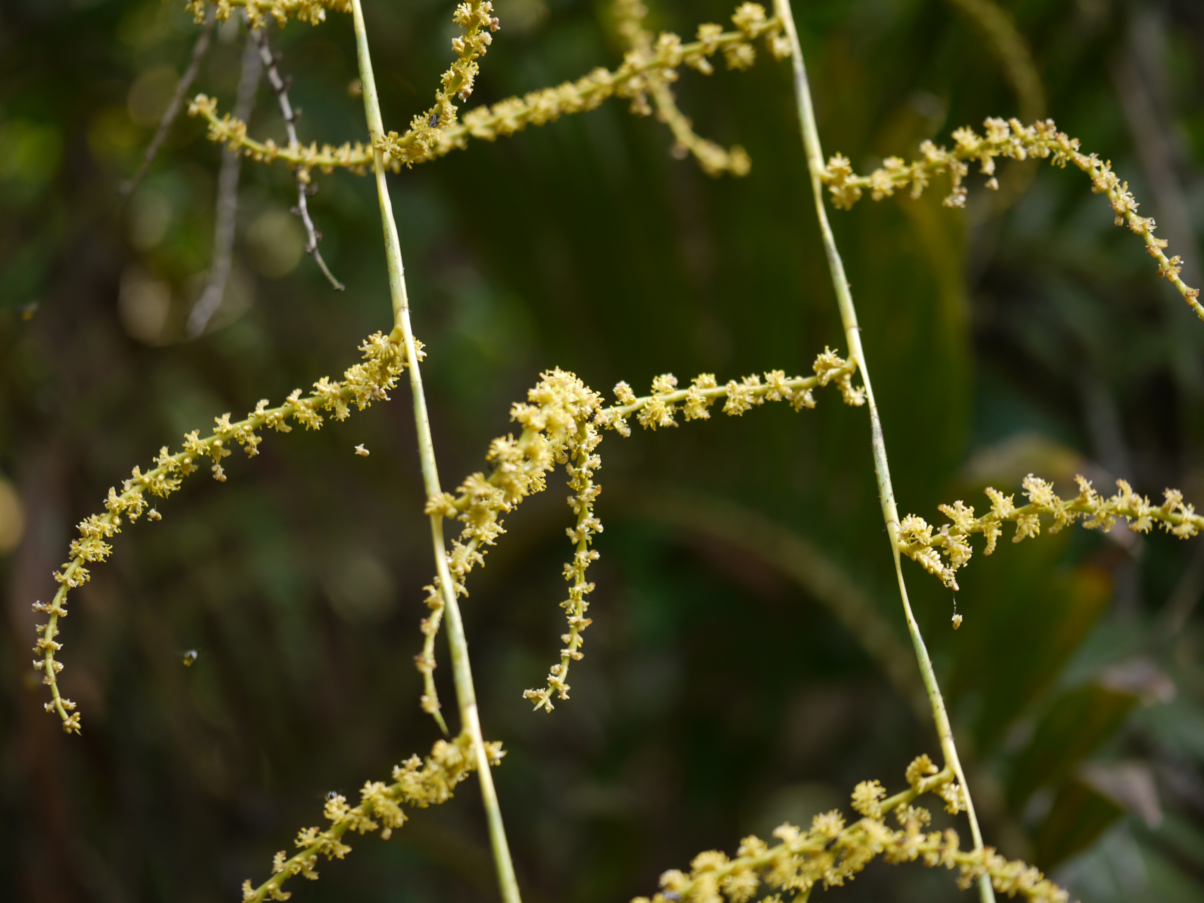 Arecaceae (palm family) » Calamus pseudotenuis KAL-uh-mus -- from the Greek kalamos, meaning reed soo-doh-TEN-yoo-iss -- from the Greek pseudo (false), tenuis (slender, thin) commonly known as: slender rattan • Kannada: ಒಂಟಿಬೆತ್ತ ontibetta • Konkani: वेत veta • Malayalam: ചെറുചൂരല്‍ cerucuural • Marathi: वेत veta Endemic to: s Western Ghats (of India), Sri Lanka References: PalmWeb • INBAR • Flora of Western Ghats • Dandeli Wildlife